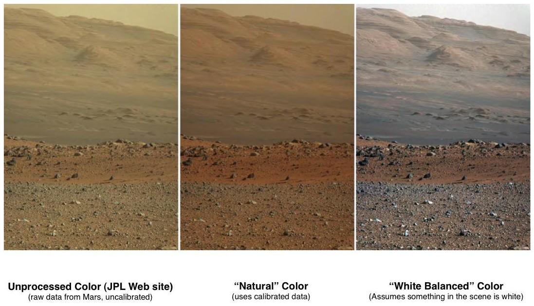 'Raw', 'Natural' and 'White-Balanced' Views of Martian Terrain - These three versions of the same image taken by the Mast Camera (Mastcam) on NASA's Mars rover Curiosity illustrate different choices that scientists can make in presenting the colors recorded by the camera. The left image is the raw, unprocessed color, as it is received directly from Mars (and as available on the MSL Raw Images Web site: The center rendering was produced after calibration of the image to show an estimate of "natural" color, or approximately what the colors would look like if we were to view the scene ourselves on Mars. The right image shows the result of then applying a processing method called white-balancing, which shows an estimate of the colors of the terrain as if illuminated under Earth-like, rather than Martian, lighting. The image was taken by the Mastcam on Sol 19 of Curiosity's mission on Mars (Aug. 23, 2012), using only the camera's red-green-blue Bayer filters. It looks south-southwest from the rover's landing site toward Mount Sharp.